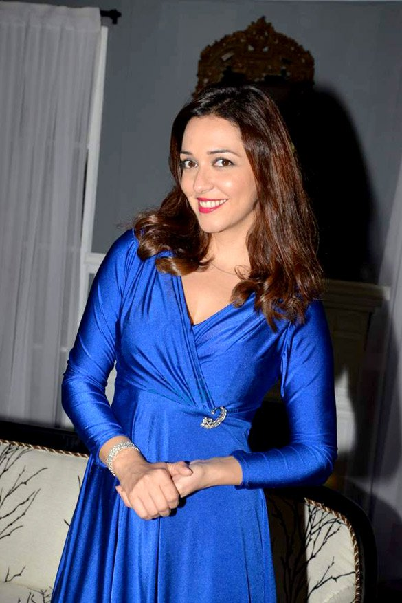 Nauheed Cyrusi snapped on the sets of the play 'The Buckingham Secret' in 9th Sept 2014.